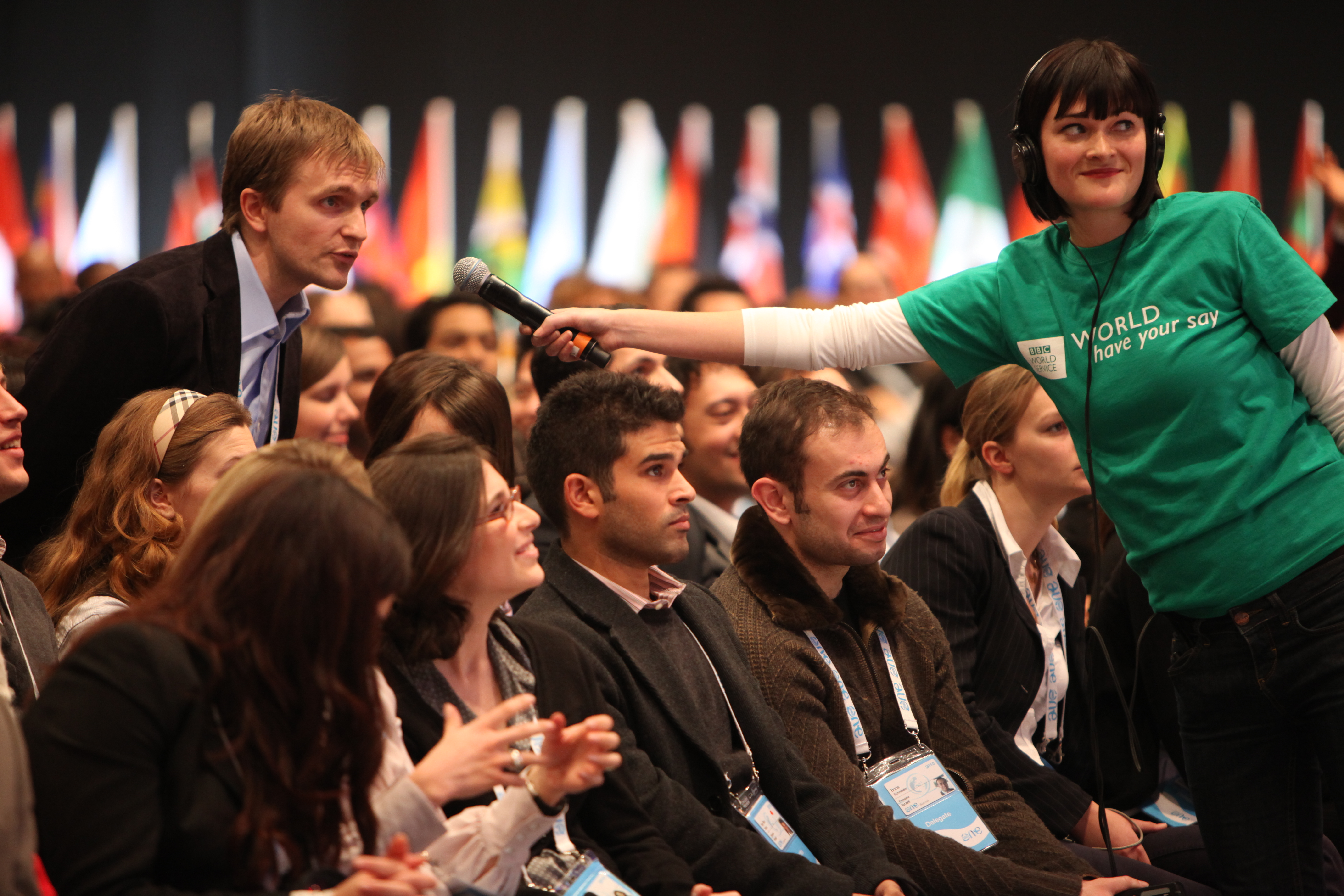 One Young World Summit